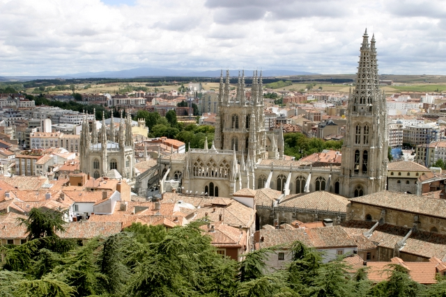 Burgos cathedral (Gothic architecture) - view from the north